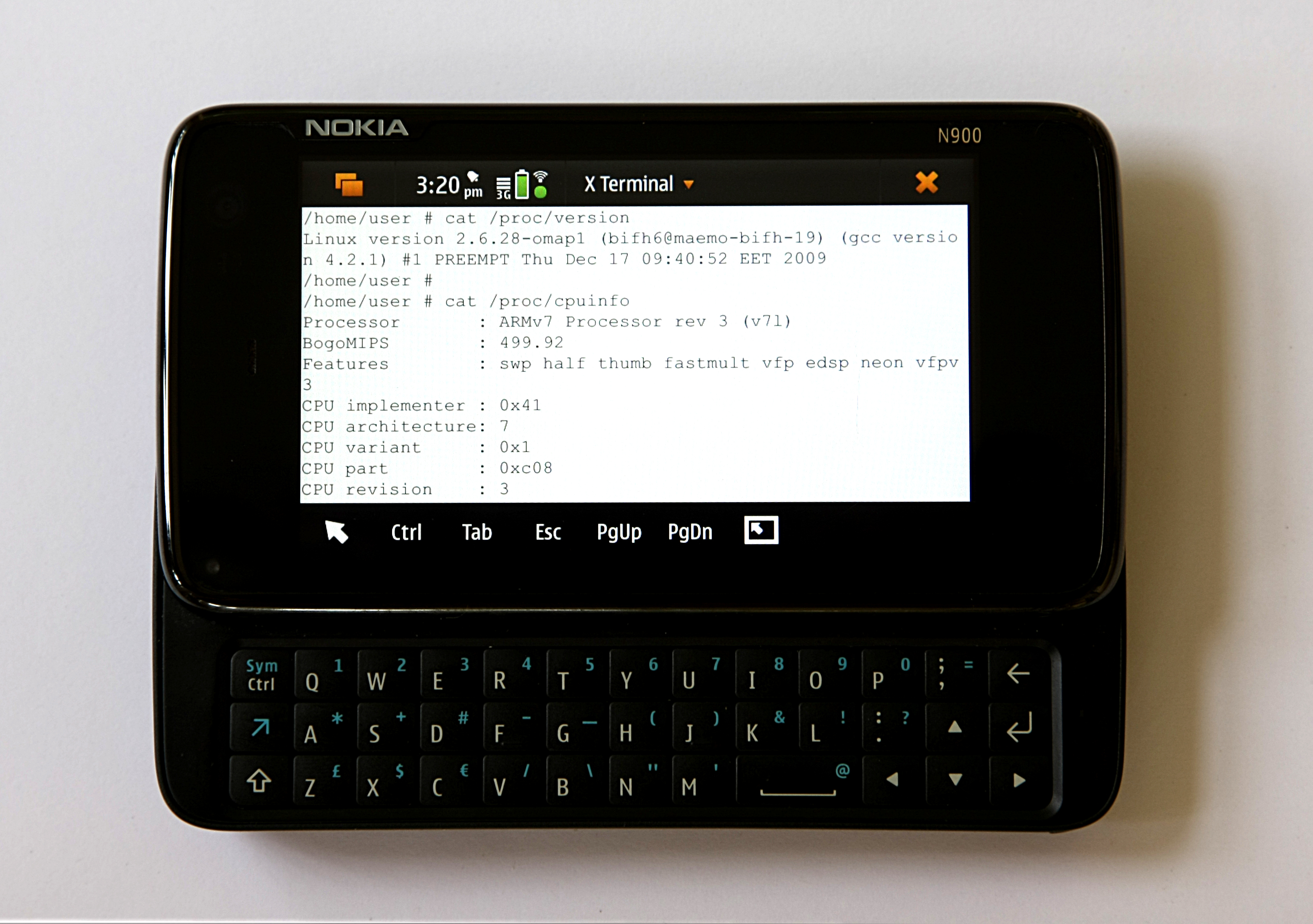 The Nokia N900 showing system information in xterm.